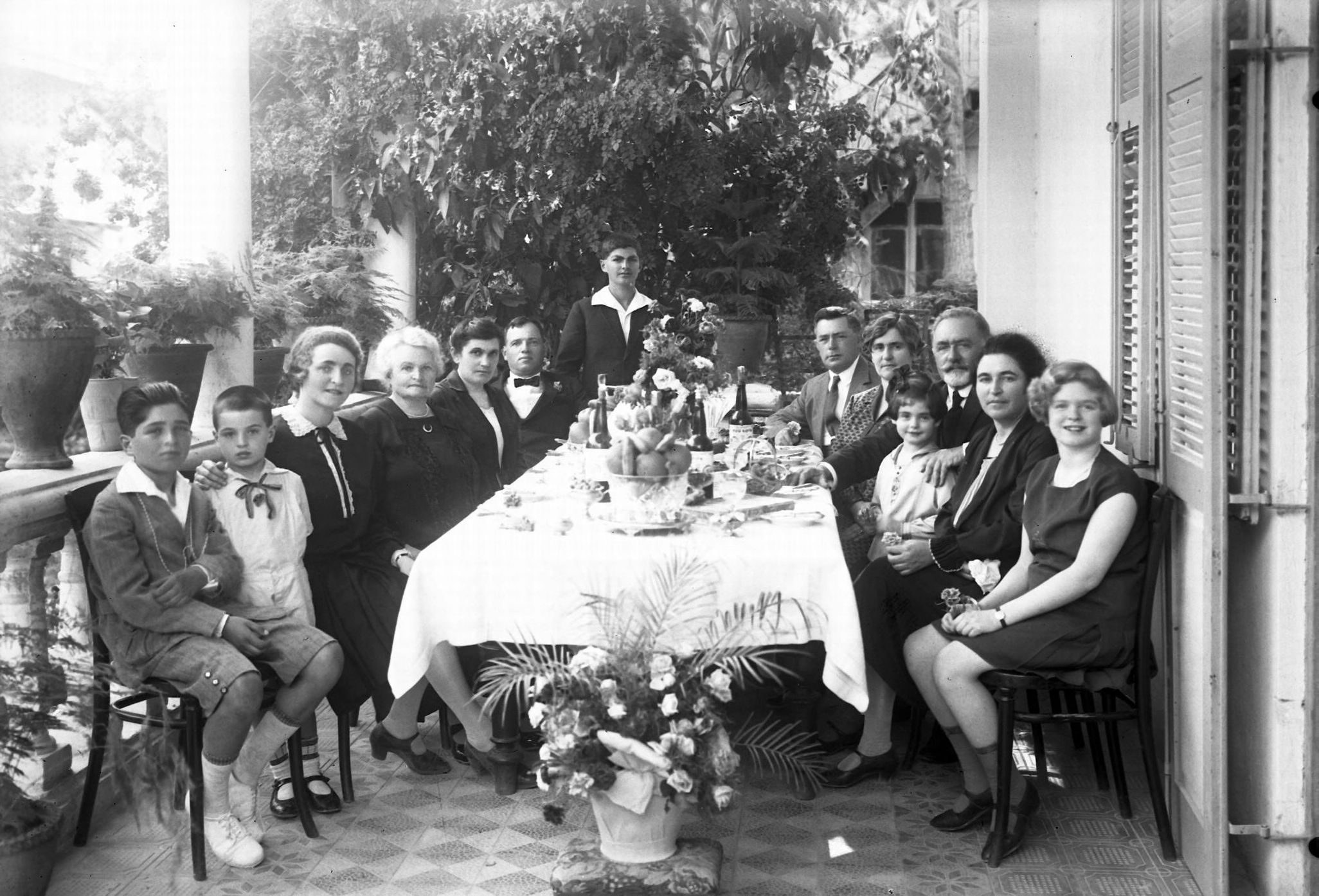 Zeev Gluskin with his family in Tel Aviv.